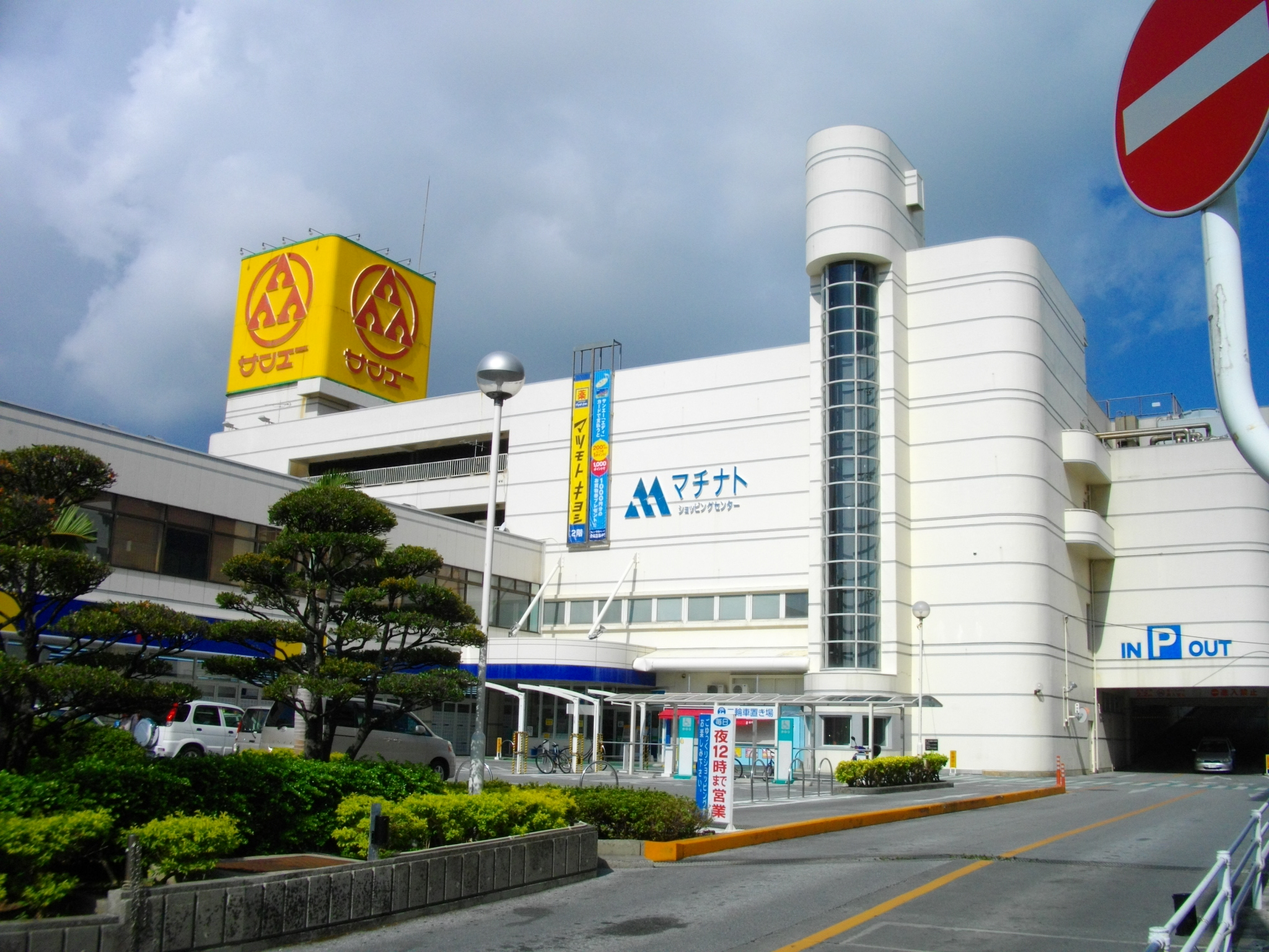 San-A Machinato Shopping Center